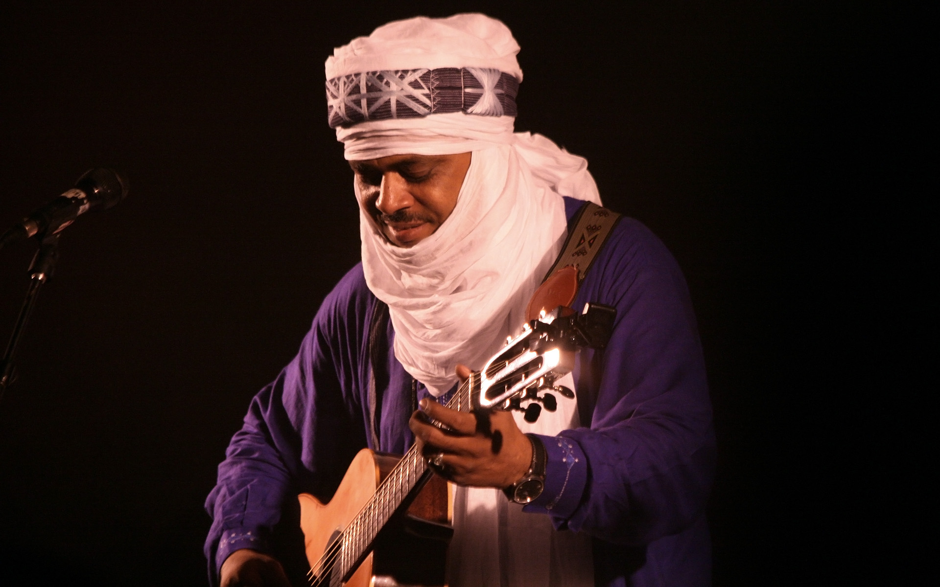 Tinariwen - concert at the cultural center WUK in Vienna.